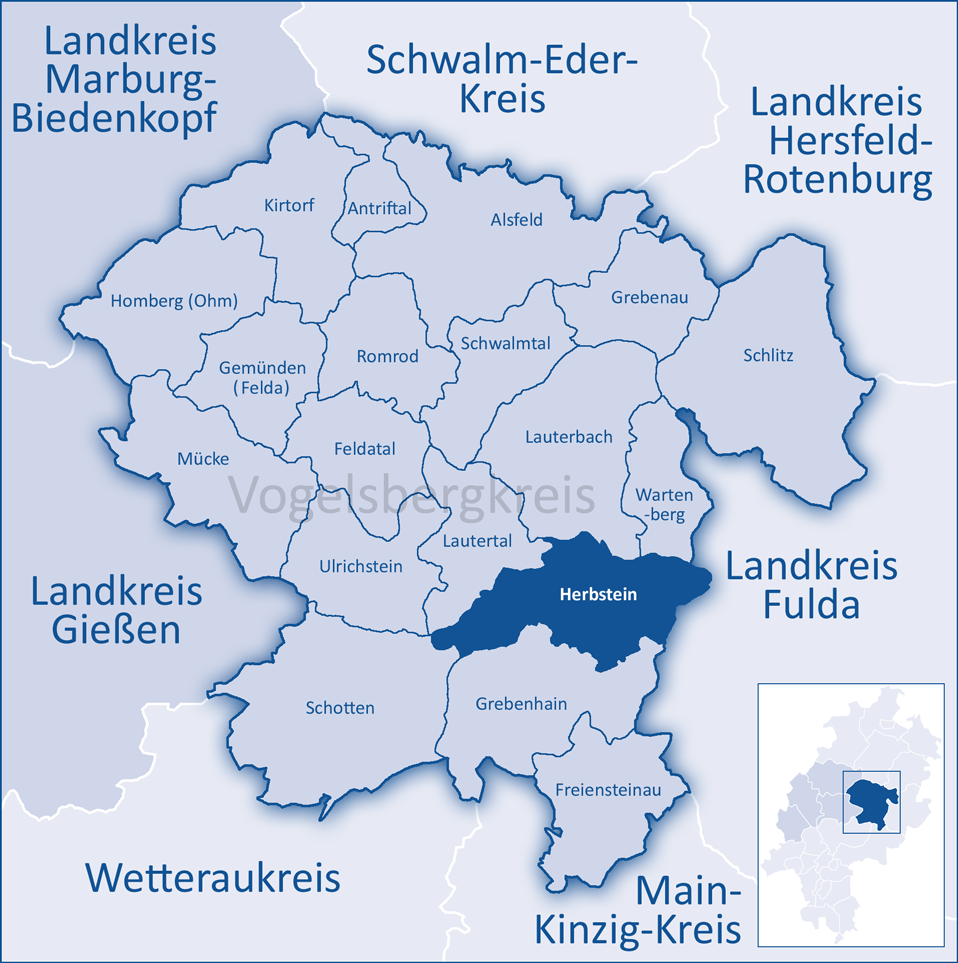 The map shows a district in the area of Vogelsbergkreis